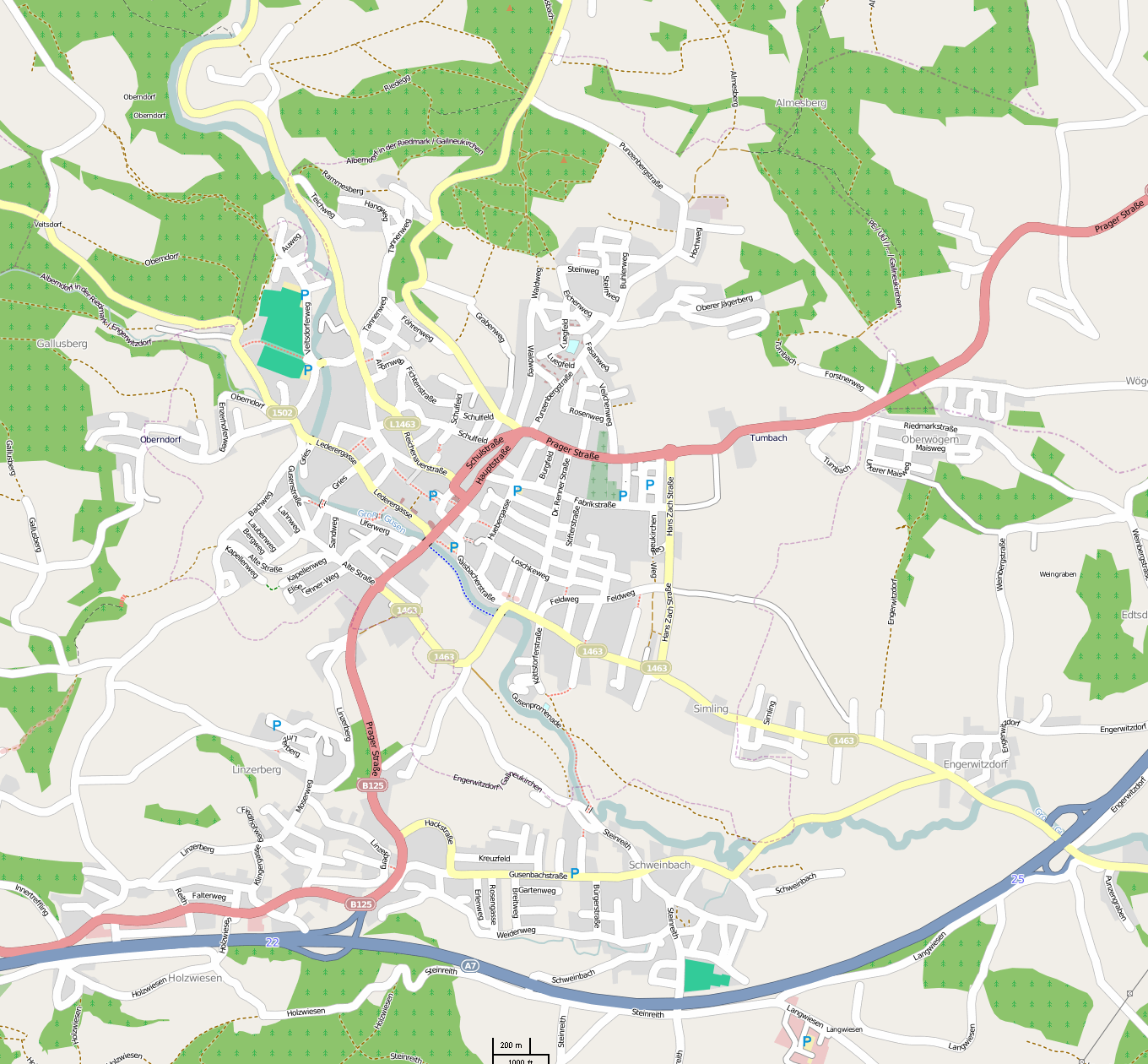 Street Map of Gallneukirchen, from OpenStreetMap